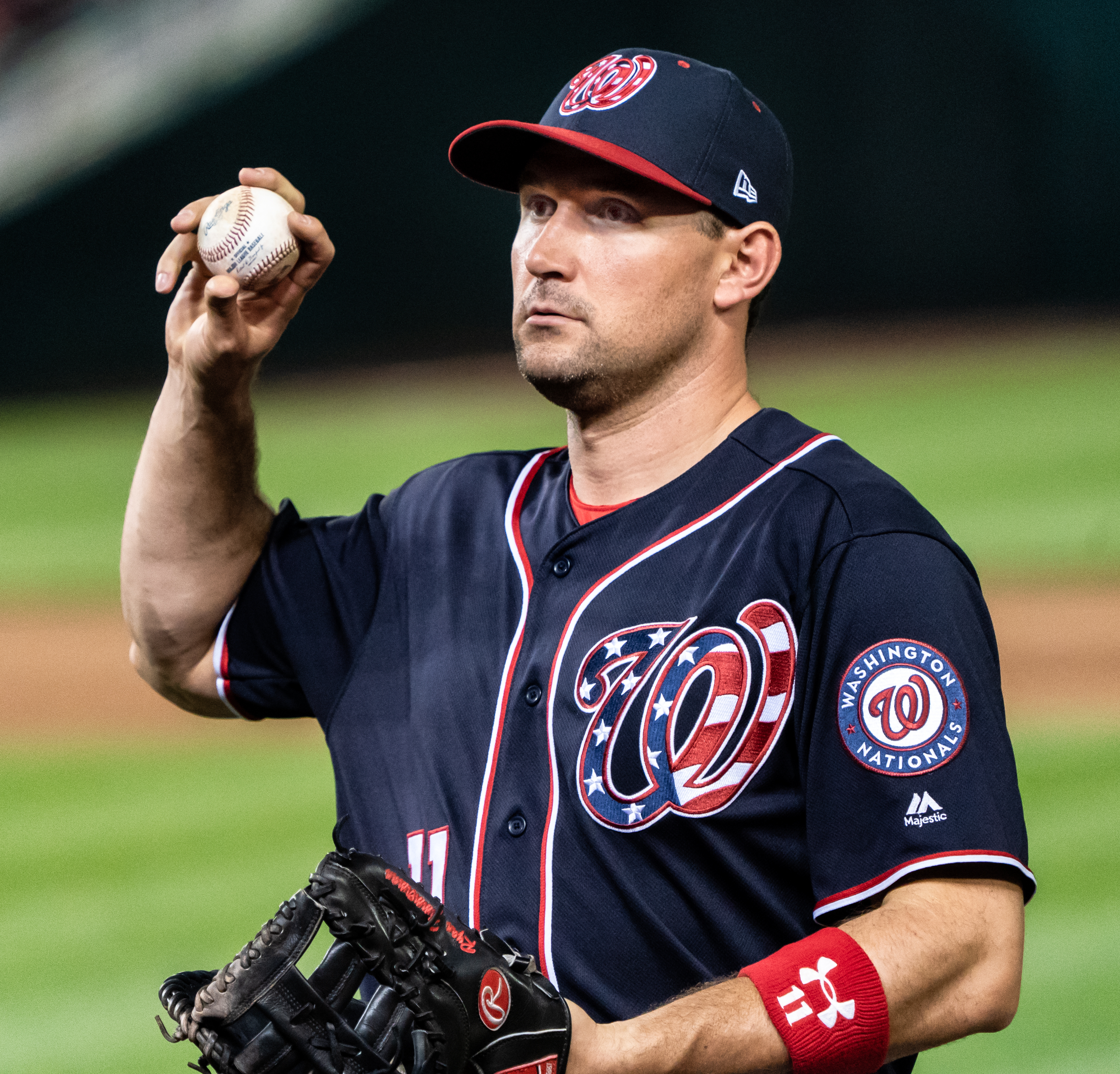 Ryan Zimmerman of the Washington Nationals throws a ball into the crowd at the end of an inning during an April 2018 game at Nationals Park in Washington, D.C.